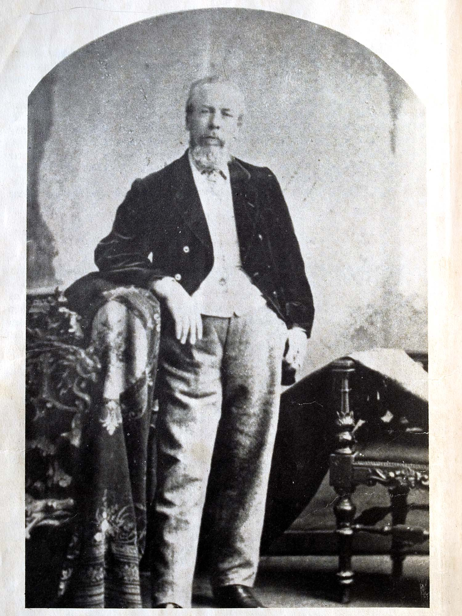 William James Mudie Larnach was banker, politician and builder of Larnach Castle, the only castle in New Zealand